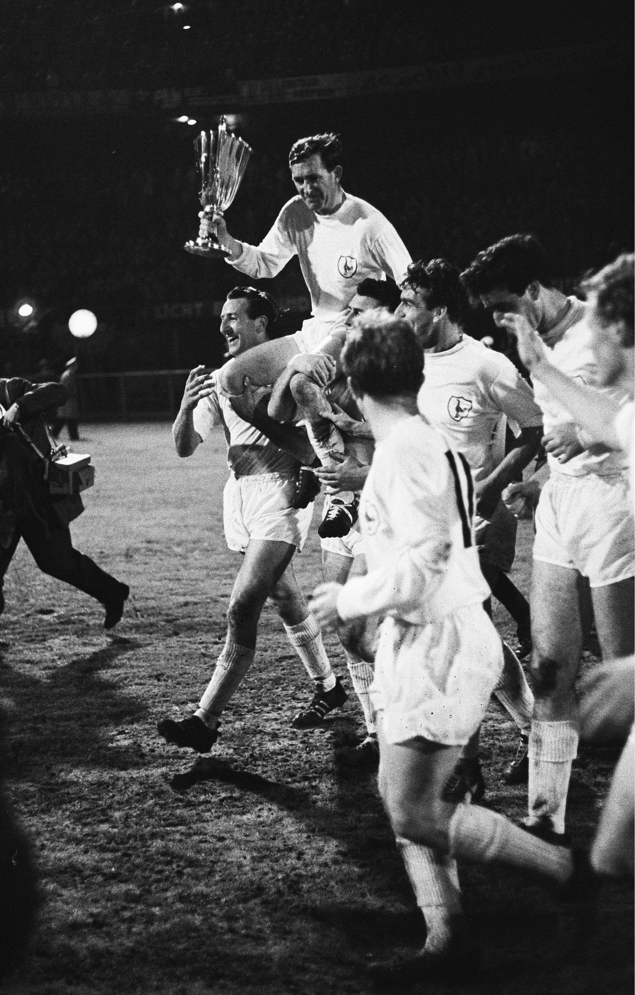 Spurs' captain Danny Blanchflower holding the 1963 European Cup Winners' Cup trophy